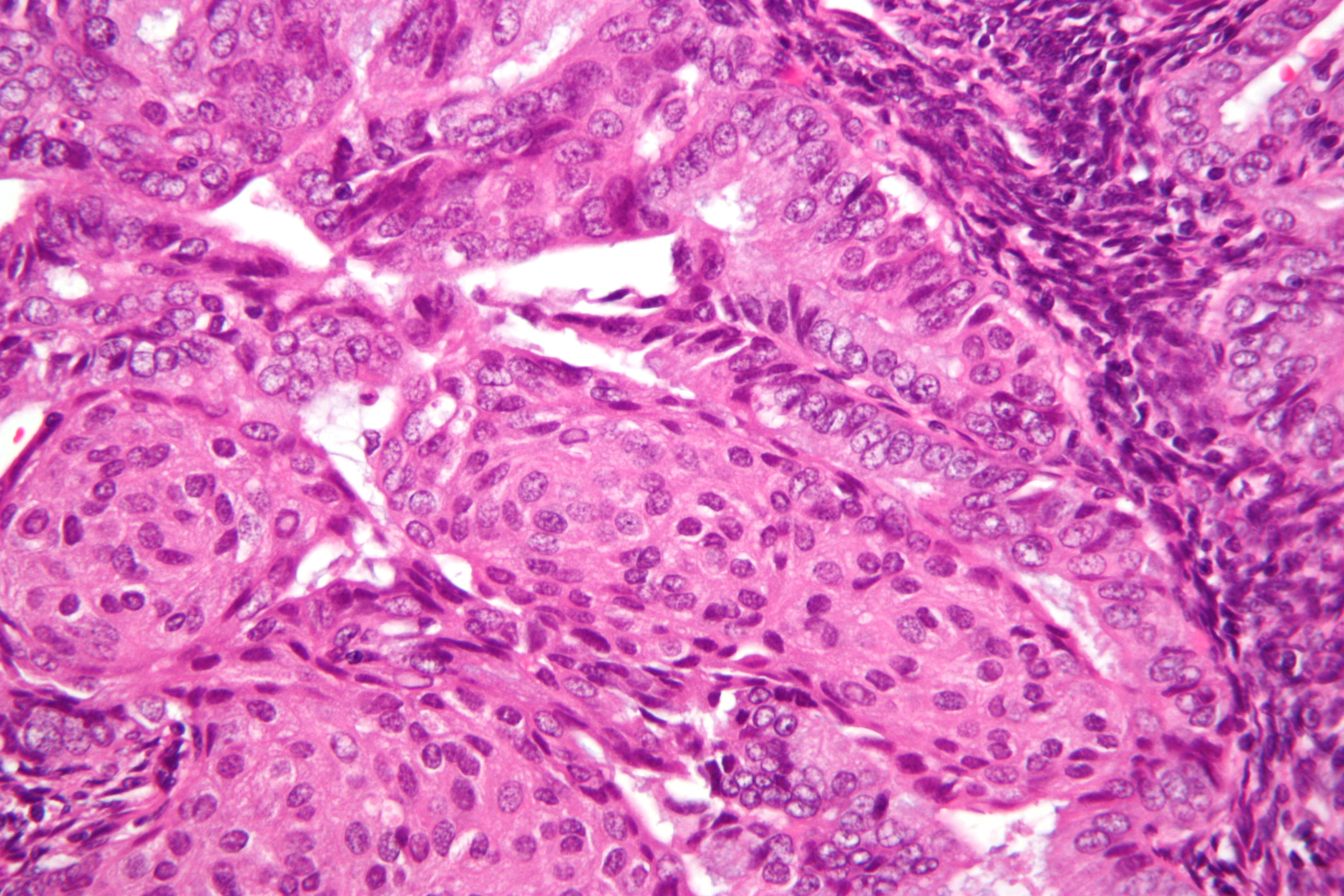 Very high magnification micrograph of endometrioid endometrial adenocarcinoma. H&E stain. Endometrioid endometrial adenocarcinoma is the most common form of endometrial cancer. Features: Malignant endometrial glands. Squamous metaplasia. Related images Low mag. Intermed. mag. High mag. Very high mag.